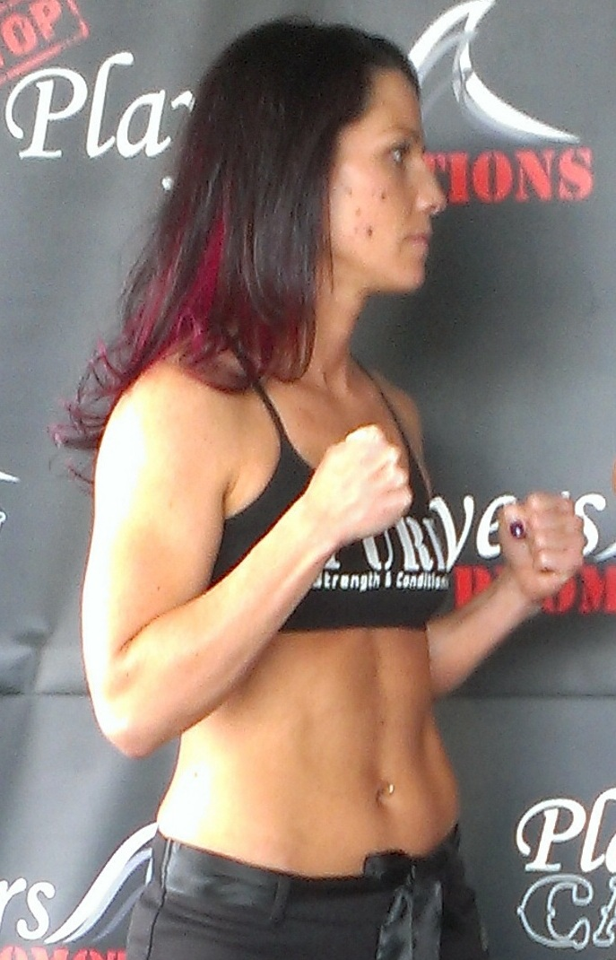 Shea Vs Dennison NABA featherweight title